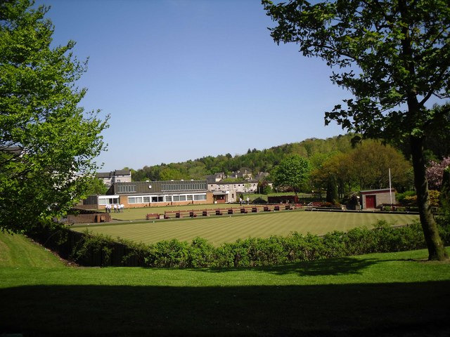 Cumbernauld Bowling Club This bowling club can be found in Cumbernauld Village.